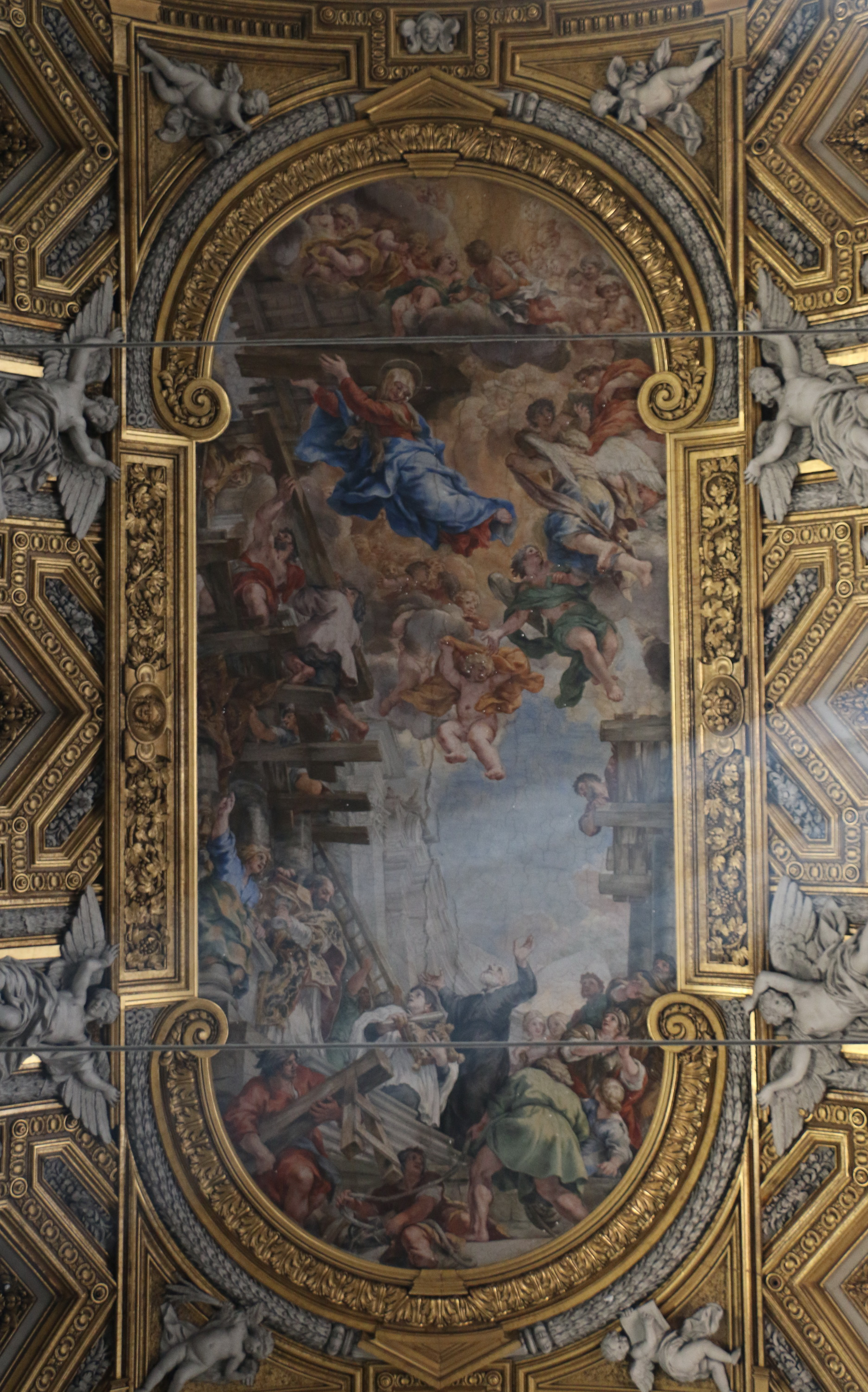 Frescoed ceiling above the nave - Pietro da Cortona Chiesa di Santa Maria in Vallicella, Rome, Lazio, Italy Santa Maria in Vallicella Native nameChiesa di Santa Maria in VallicellaLocationRome, Lazio, ItalyCoordinates41° 53′ 55″ N, 12° 28′ 09″ E Established1575Web page control : Q2031901 GND: 4459147-0 institution QS:P195,Q2031901